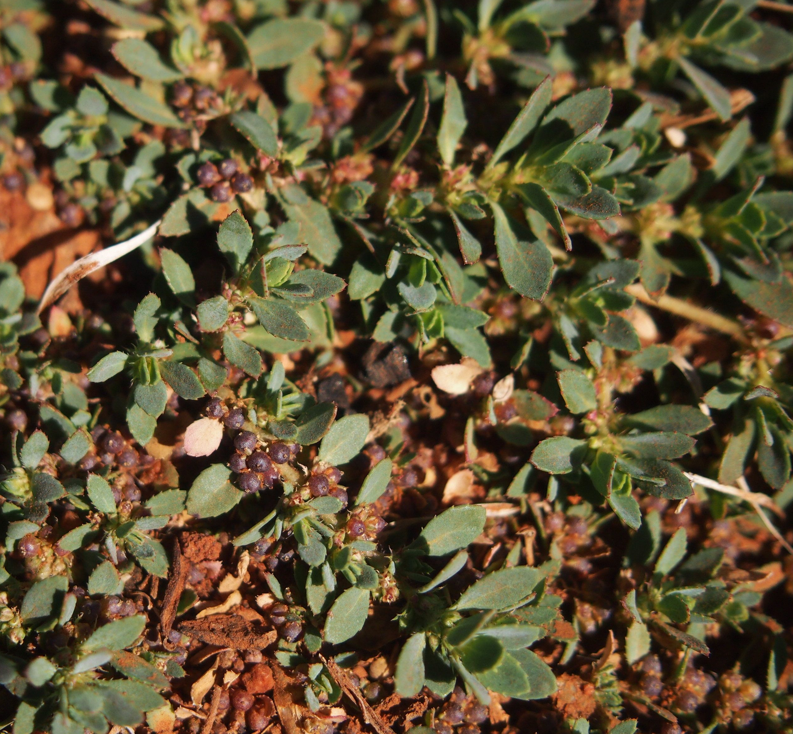 Bergia trimera fruit